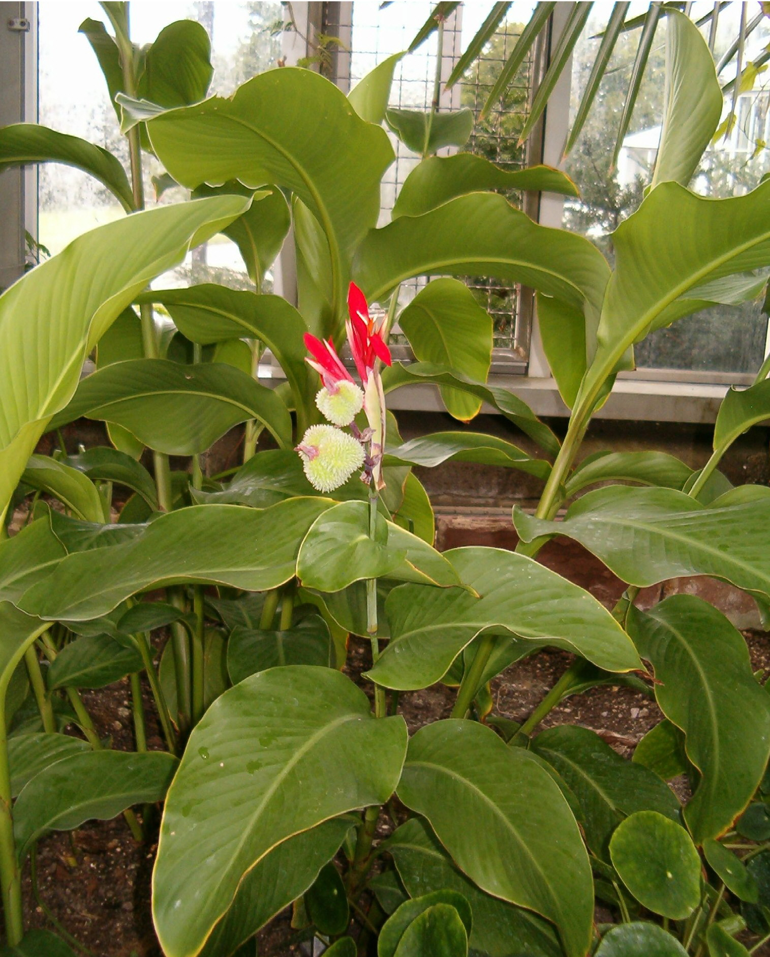 Syn.: Canna warscewiczii A.Dietr. Location: Botanical Gardens Berlin Habitus and Inflorescence